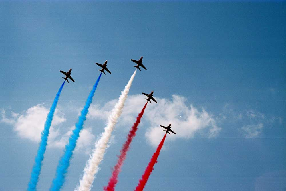 Red Arrows at Farnborough Air Show 2006